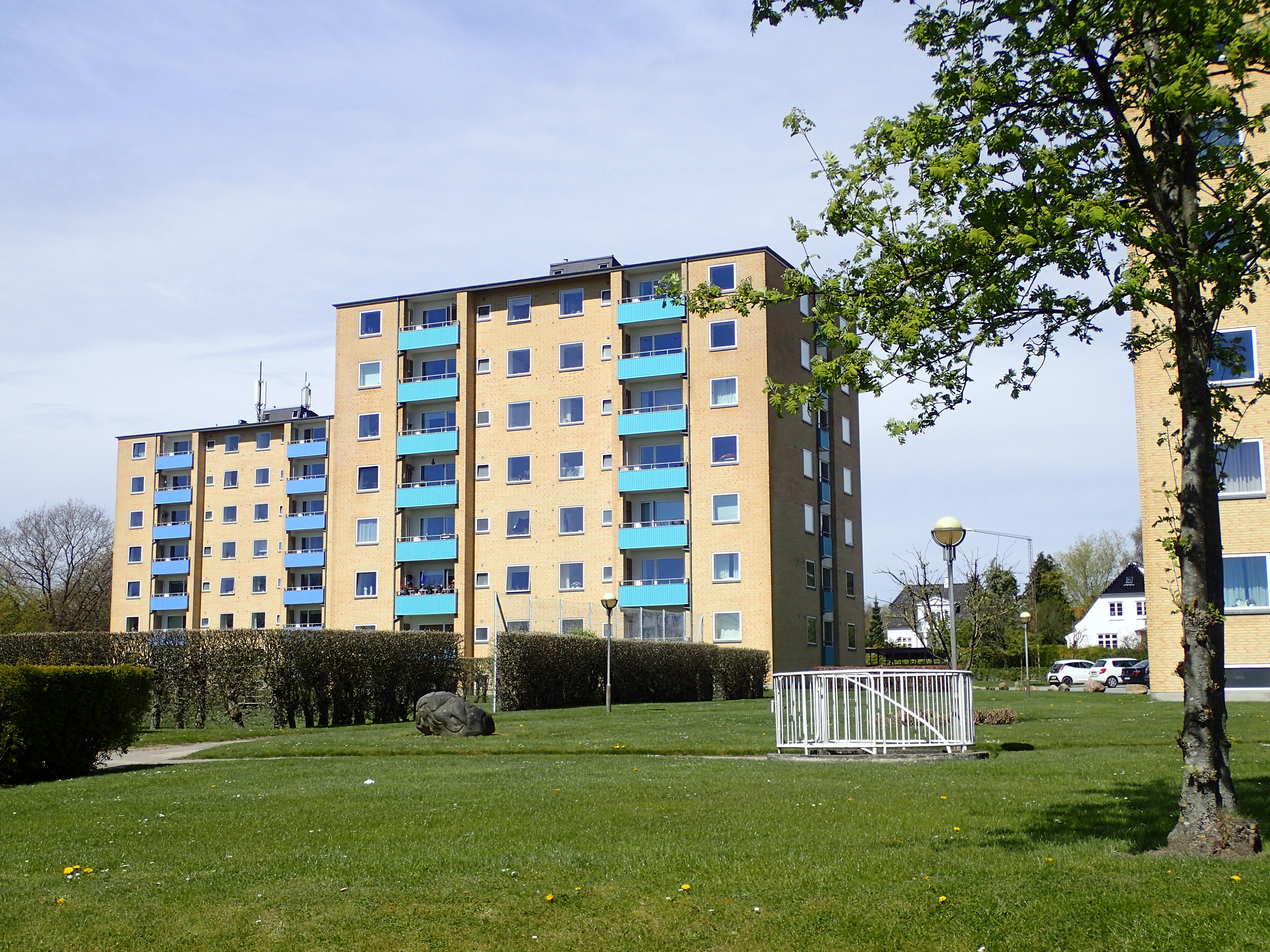 Præstehaven